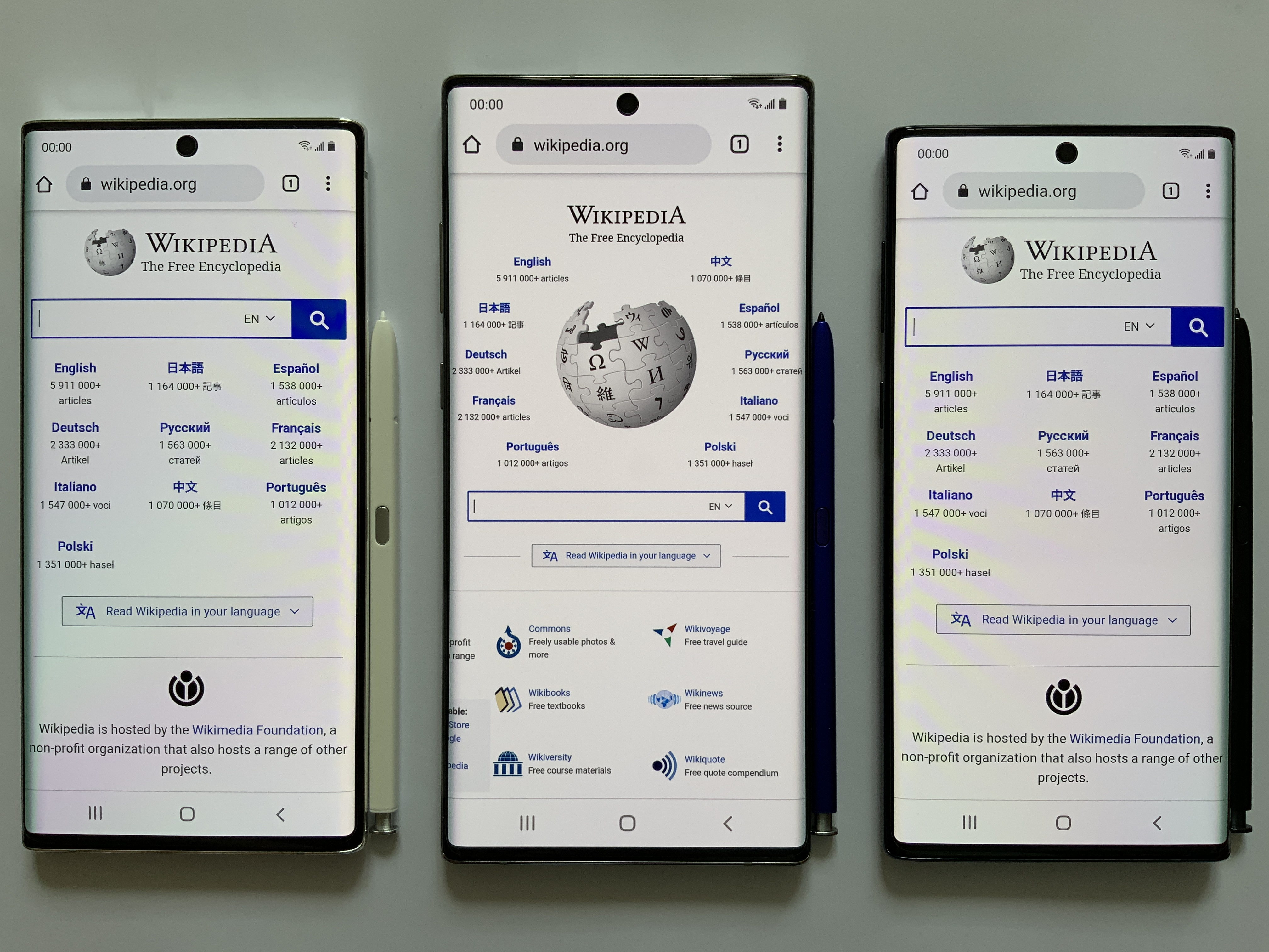 Wikimedia screenshots on Samsung Galaxy Note 10 and Note 10+